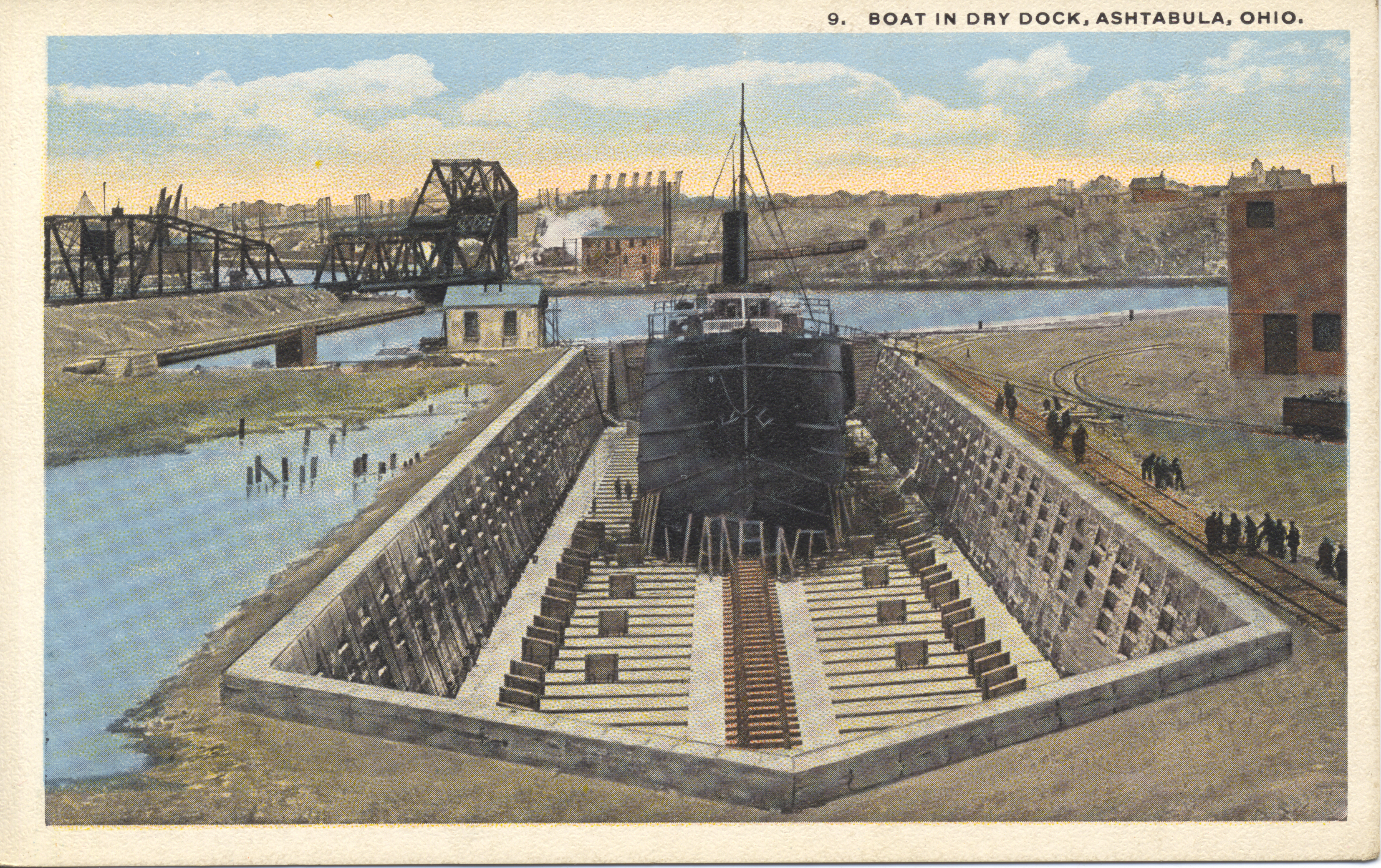 Persistent URL: Subject (TGM): Boats